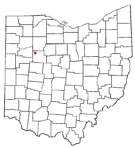 Map of Ada, a village in Hardin County, Ohio, United States